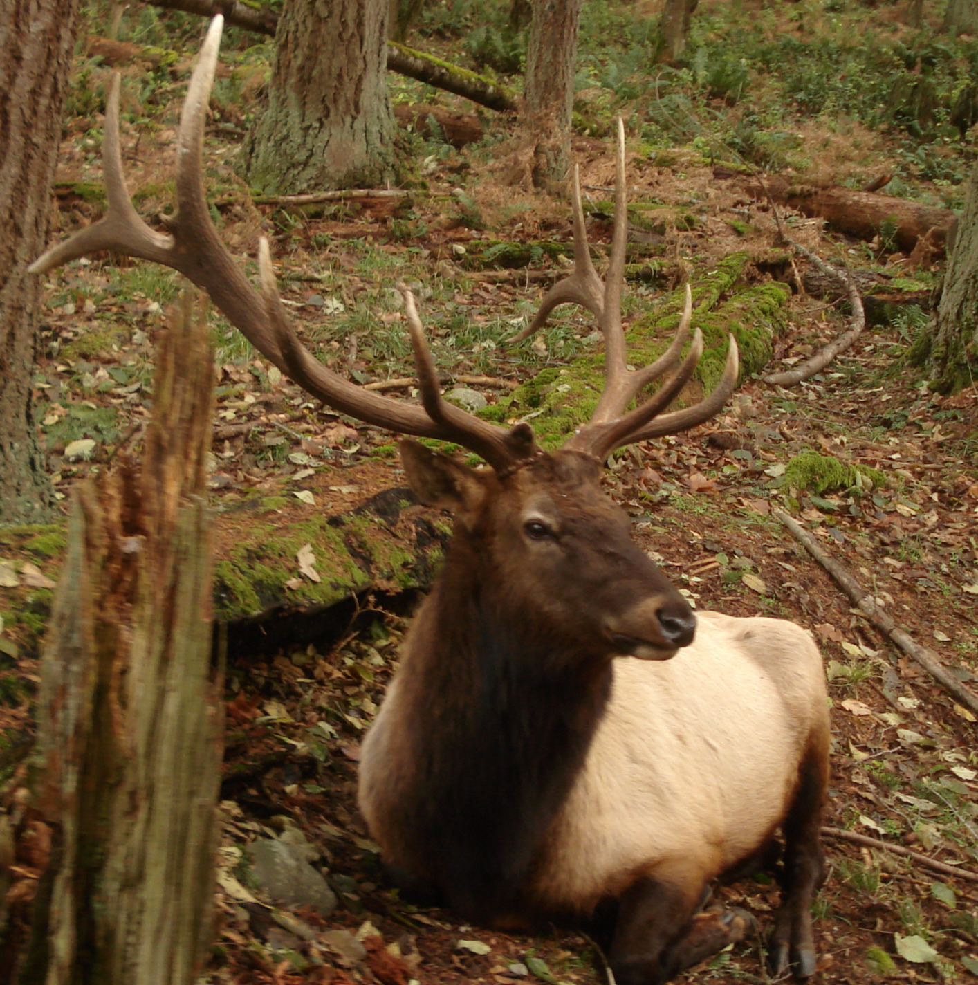 A Roosevelt Elk as seen out of a window on the Tram Tour.